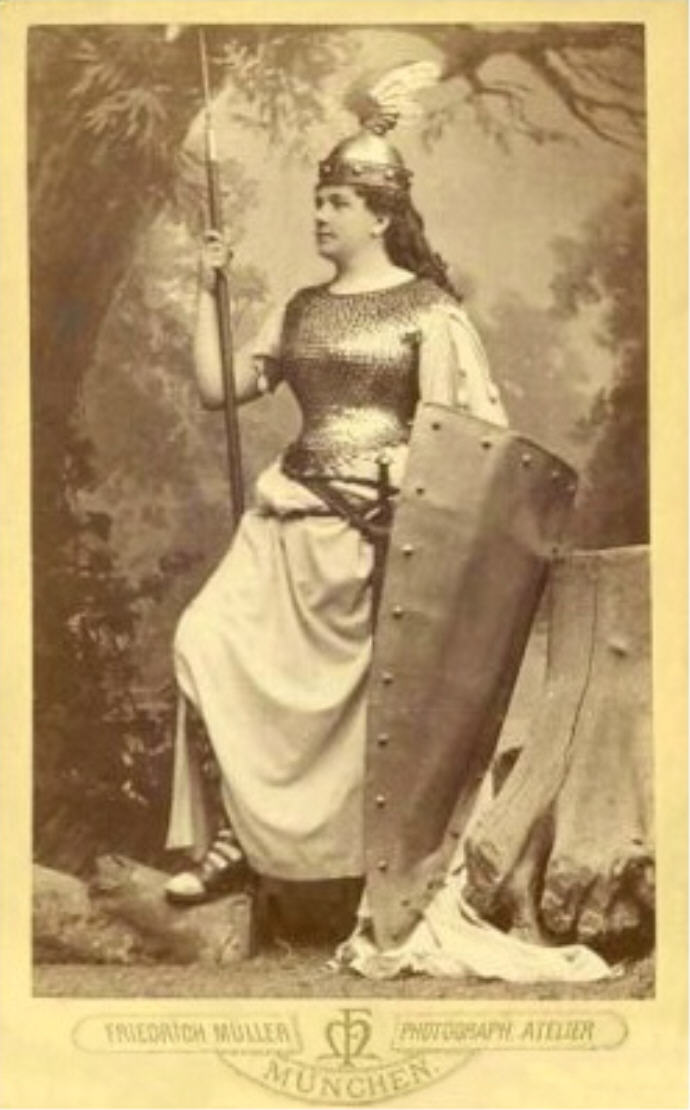 Therese Vogl, geb. Thoma